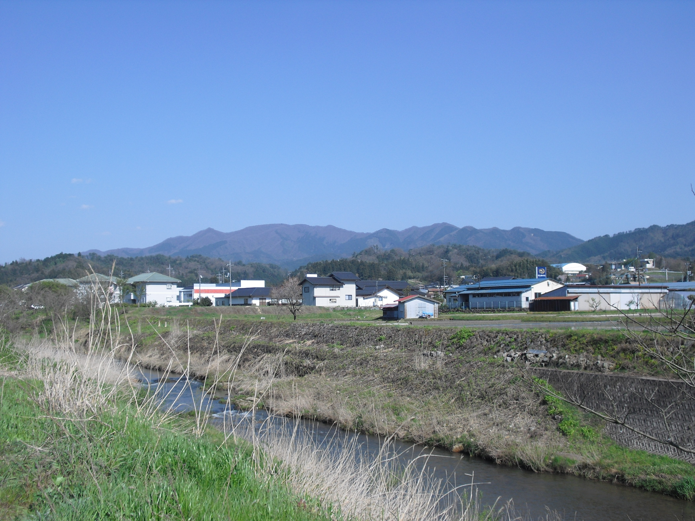 Mount Sentsu (Sentsu-zan) as seen from the WNW. Hii River in the foreground.